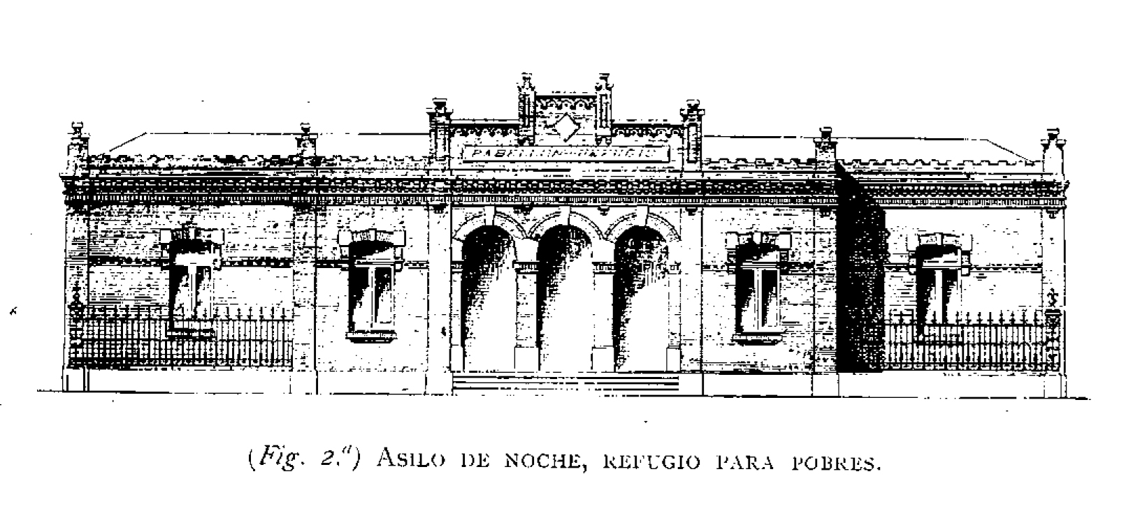 Asilo Tovar. Asilo de noche, refugio para pobres (construido en 1903), Madrid.